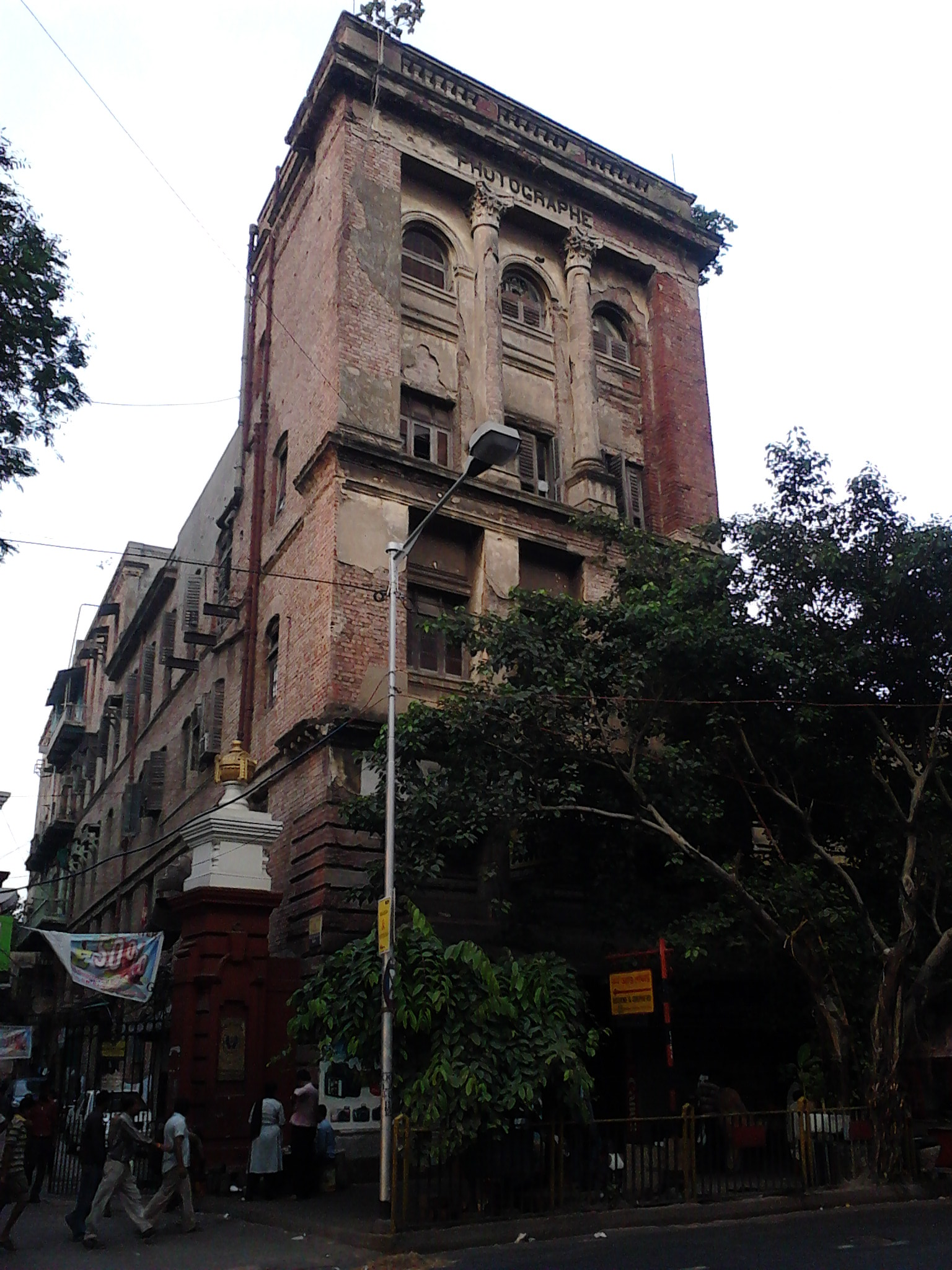 Bourne & Shepherd, a photographic studio, set up by British photographers, Samuel Bourne and Charles Shepherd in 1864, and still running in Kolkata.